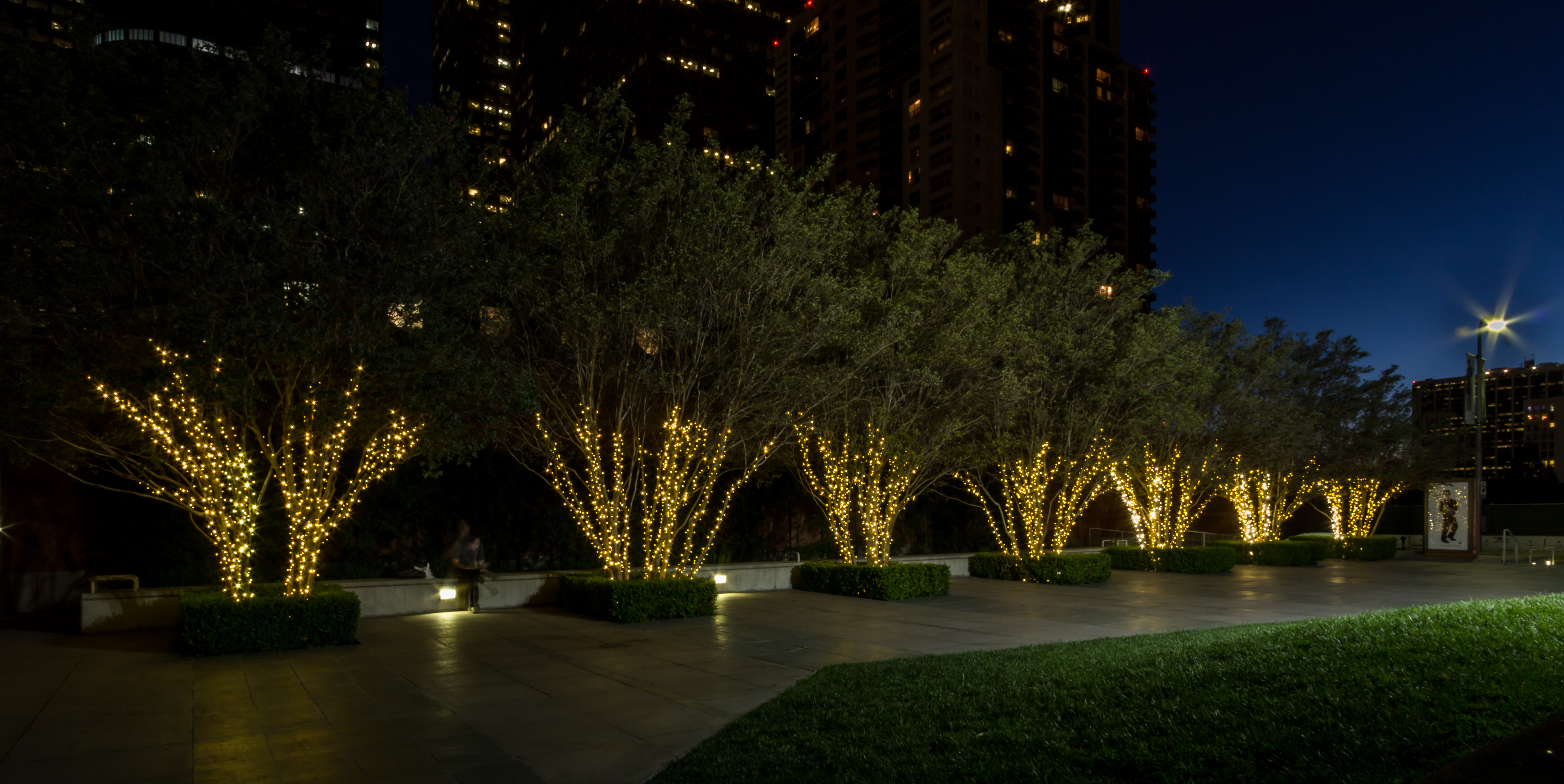 Illuminated trees Los Angeles Downtown, California, USA